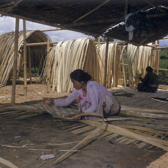 Plaiting bamboo